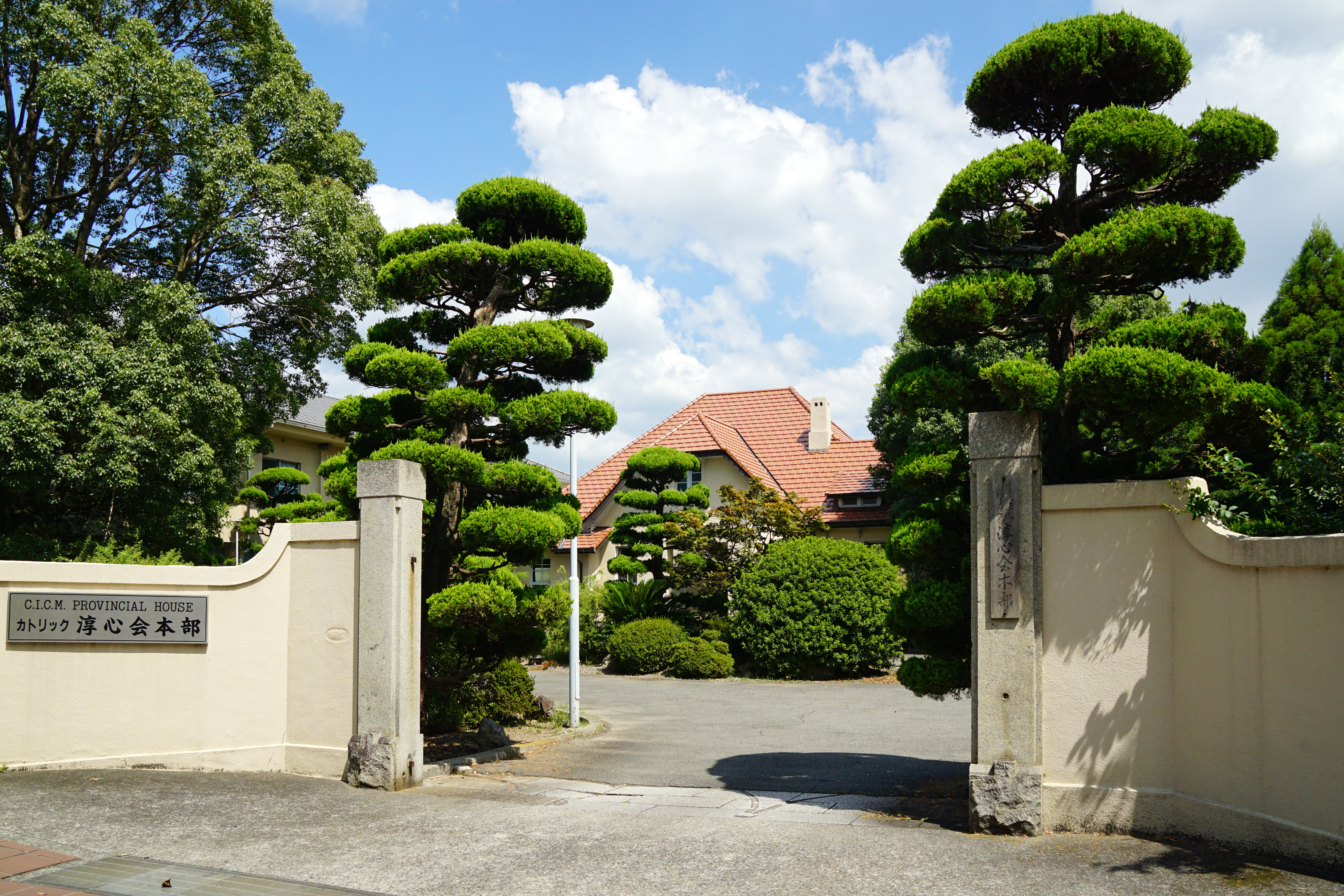 CICM_Missionaries Japanese Provincial House in Himeji, Hyogo prefecture, Japan.